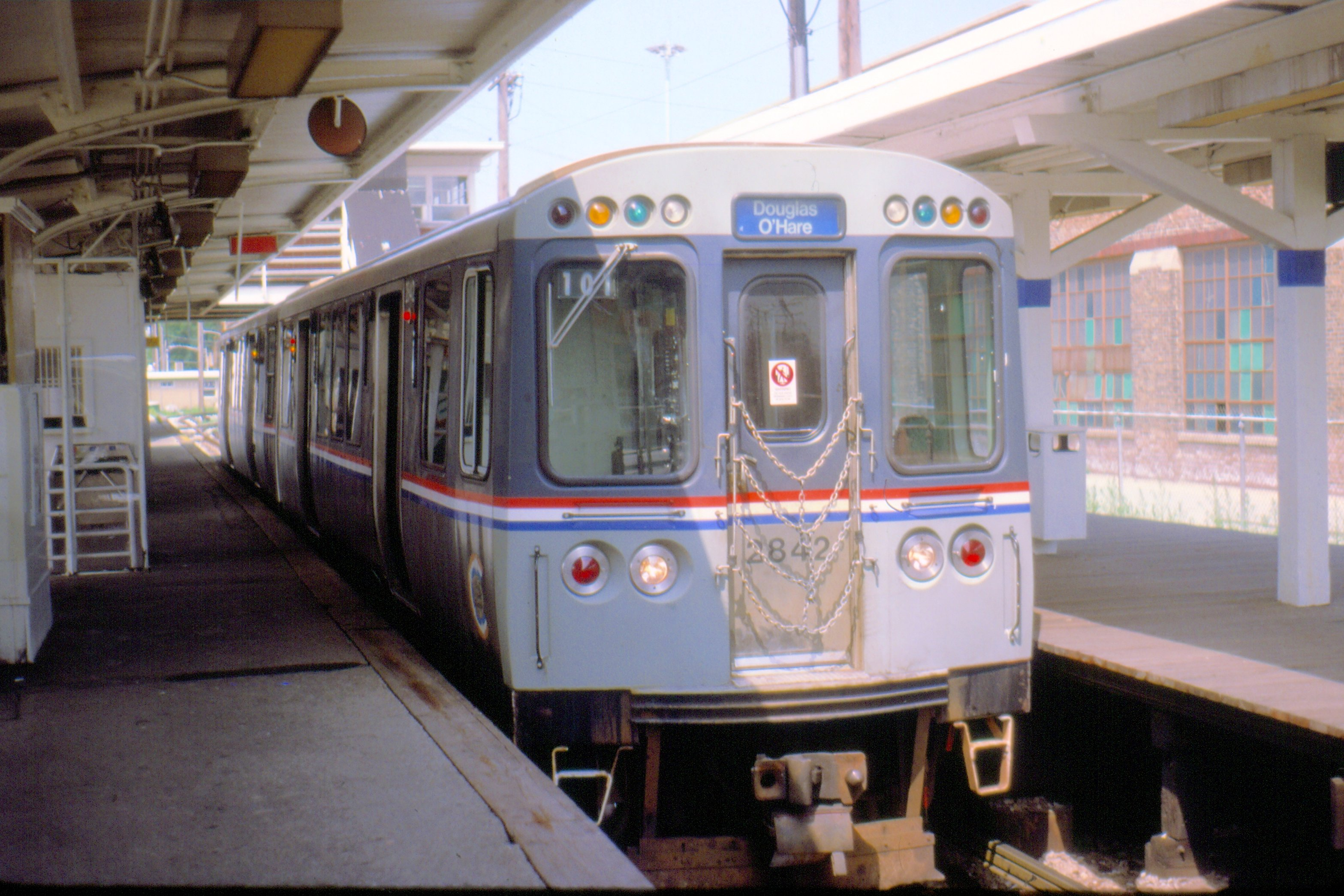 CTA 2842 (Budd 1981-88) heads up eastbound Douglas-O'Hare train preparing to depart Cicero-Berwyn Terminal (now called 54th & Cermak) Cicero IL 7-17-94